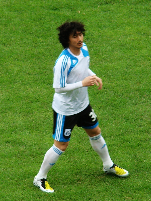 Korean footballer Ahn Jung-Hwan in Dalian Shide